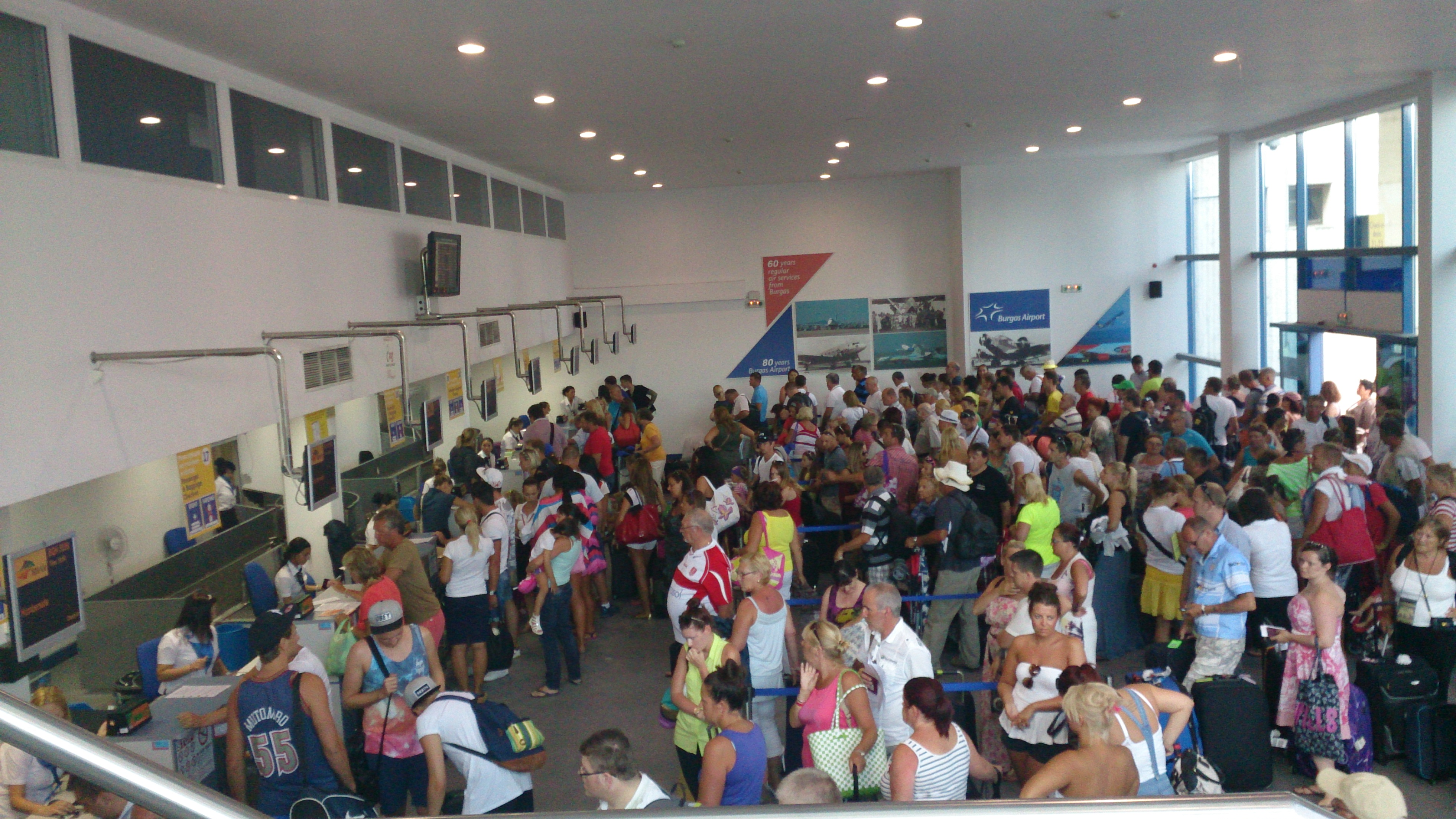 Check-in at the Bourgas Airport